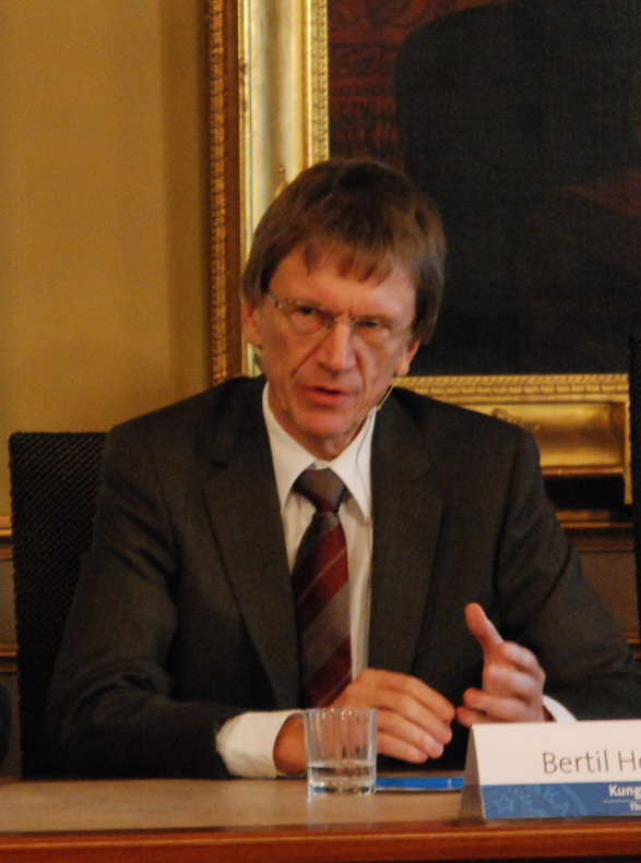 Bertil Holmlund at the announcement of the Laureate of the Sveriges Riksbank Prize in Economic Sciences in Memory of Alfred Nobel 2008 at the Swedish Academy of Sciences